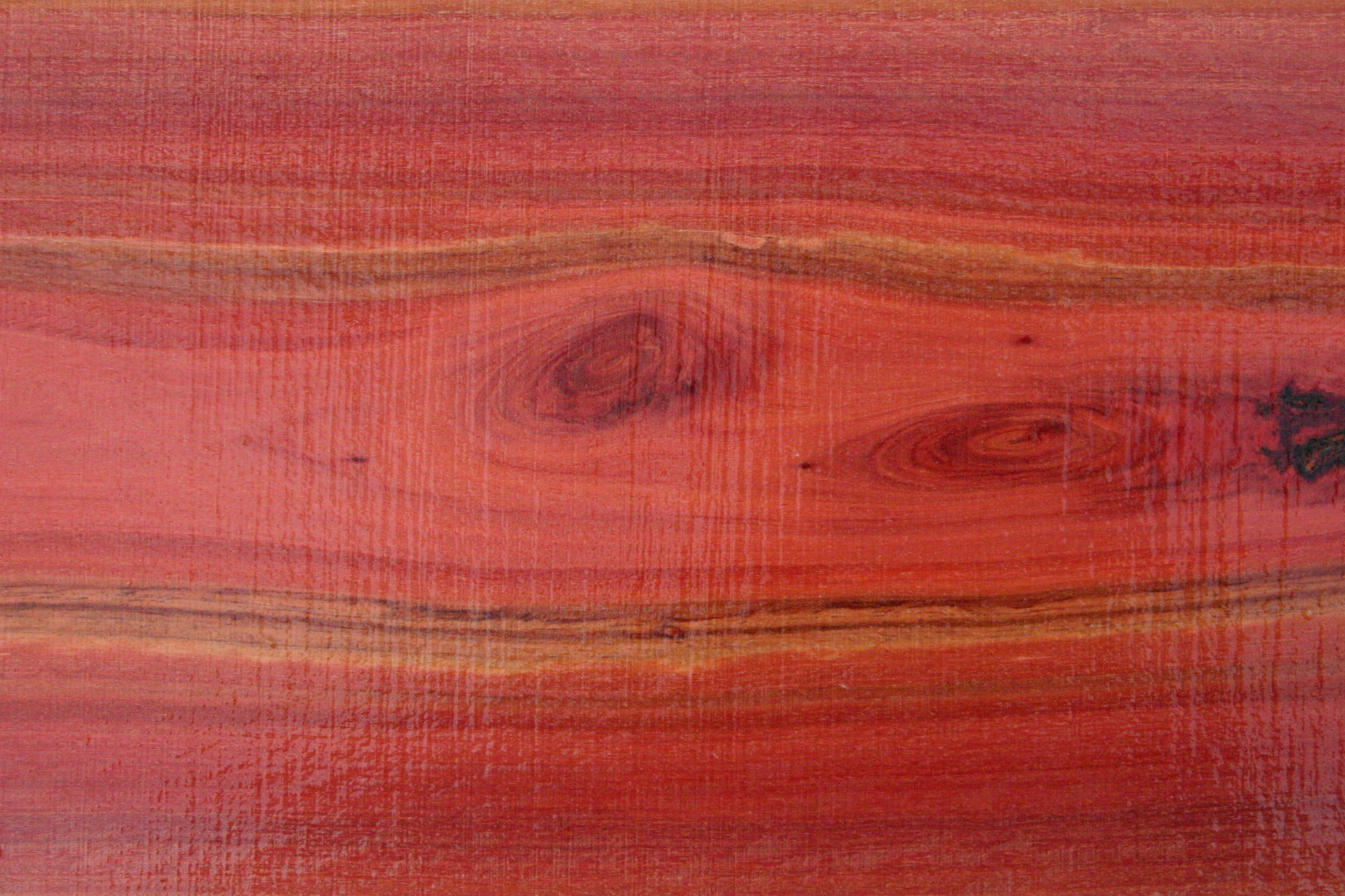 Eucalyptus camaldulensis, own image.